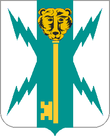 309TH MILITARY INTELLIGENCE BATTALION Coat Of Arms